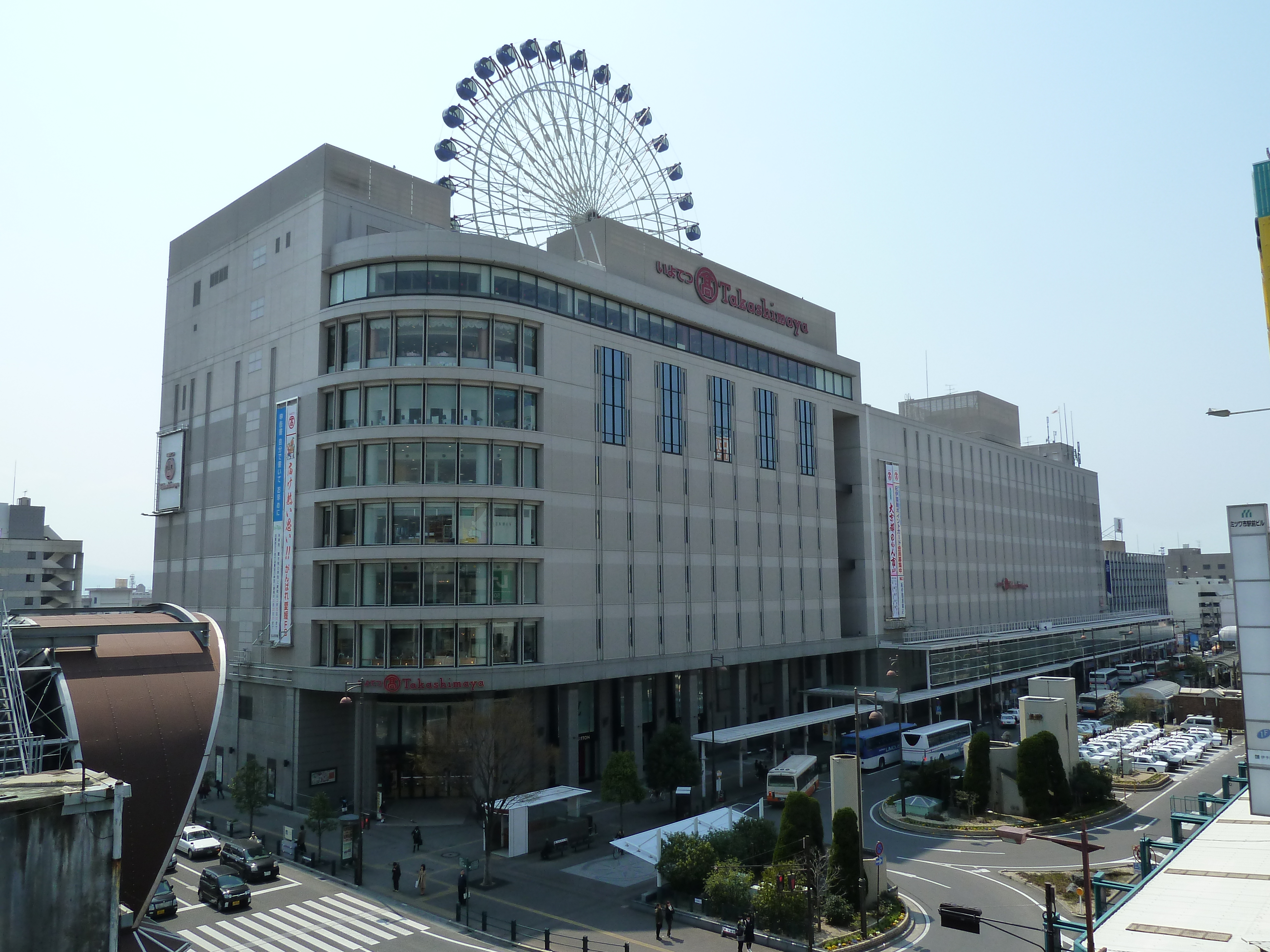 Iyotetsu Takashimaya department store and Iyo Railway Matsuyamashi Station